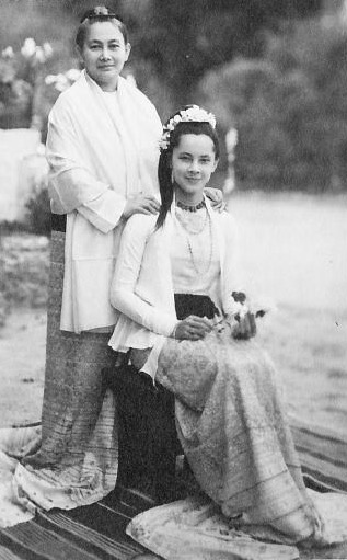 Daughter of Prince Linbim, H.R.H Princess Hteiktin Ma Lat and her daughter Princess Yadana Nat Mei. Hteiktin Ma Lat died at Rangoon,Burma,1965. Yadana Nat Mei married to Ne Win(4th President of Burma) in 1976-77. Now, she resides in Florence, Italy.